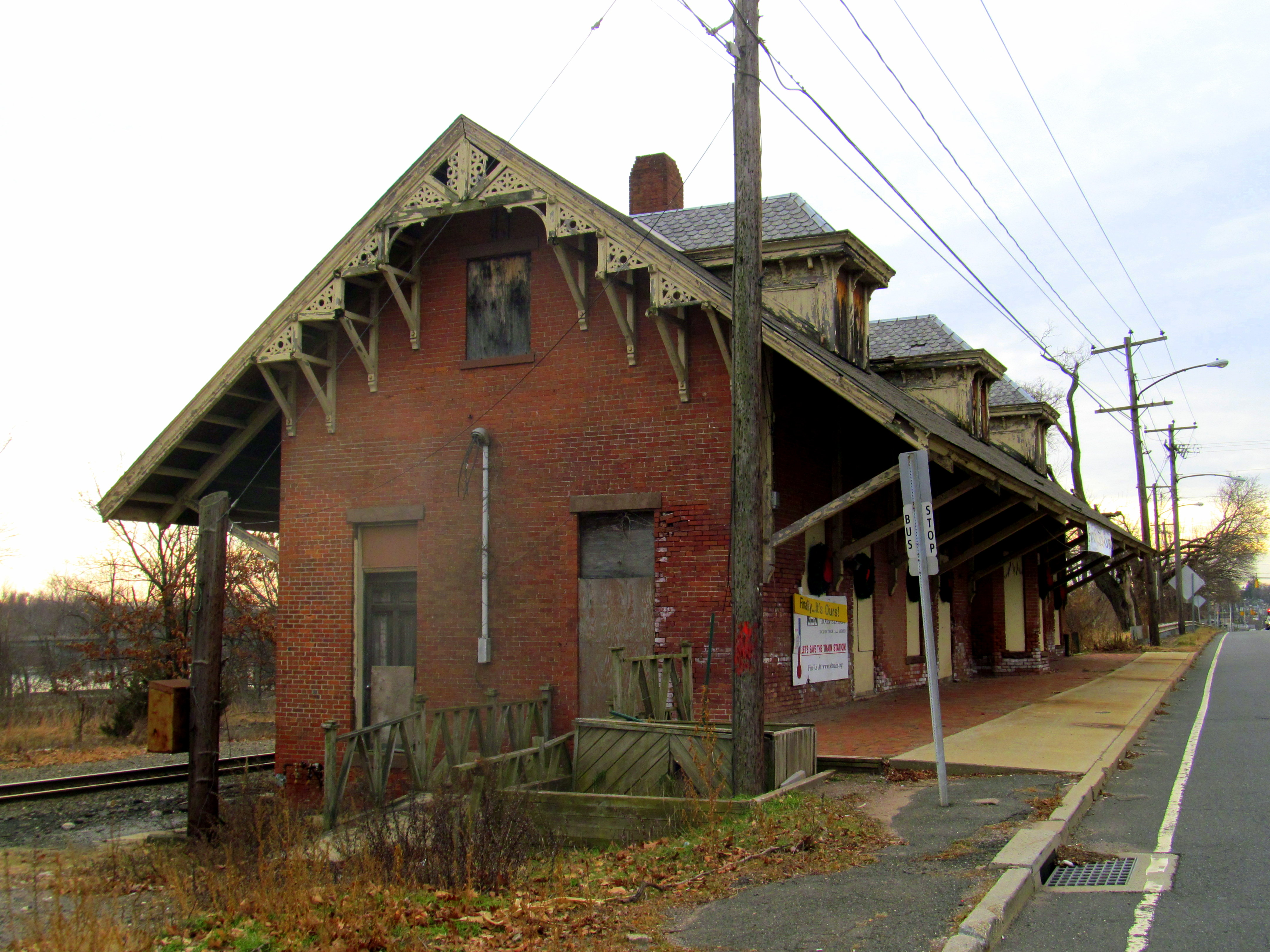 The former Windsor Locks station in January 2015